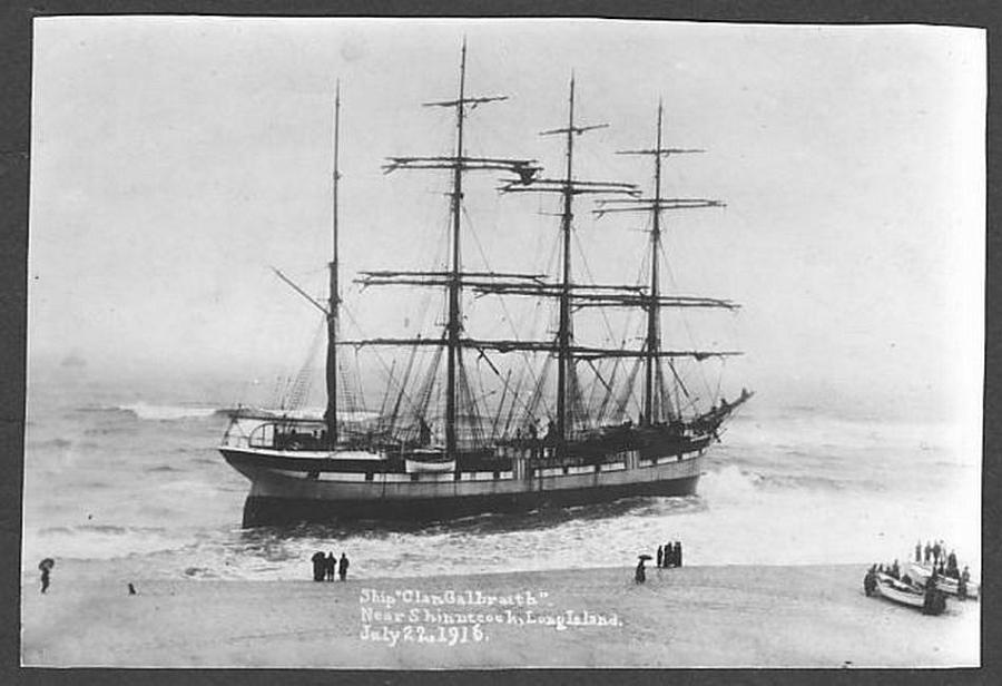 Steel Barque Clan Galbraith aground near Shinnecock, Long Island after hitting bottom in heavy fog.